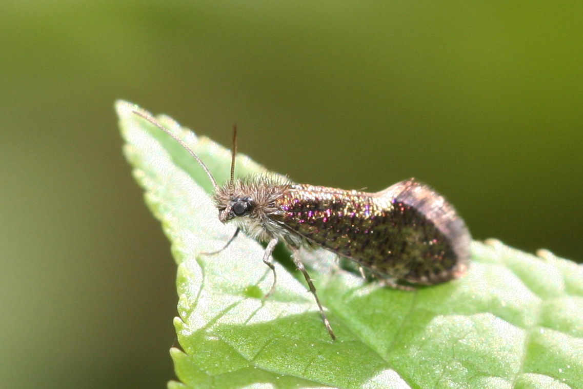 Dyseriocrania subpurpurella 21 april 2007 IJmuiden, the Netherlands